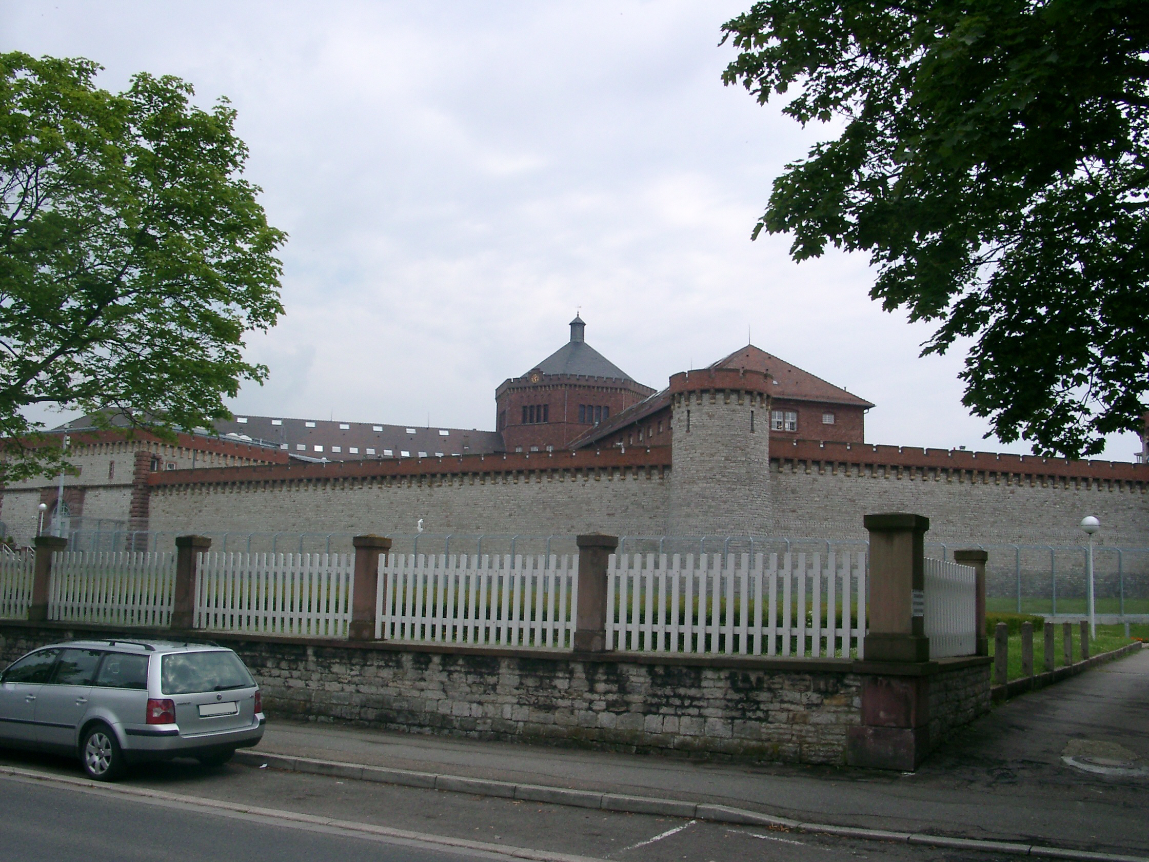 Bruchsal, prison